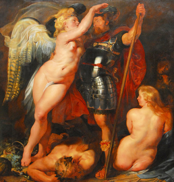 Pendant of File:Peter Paul Rubens cat01.jpg